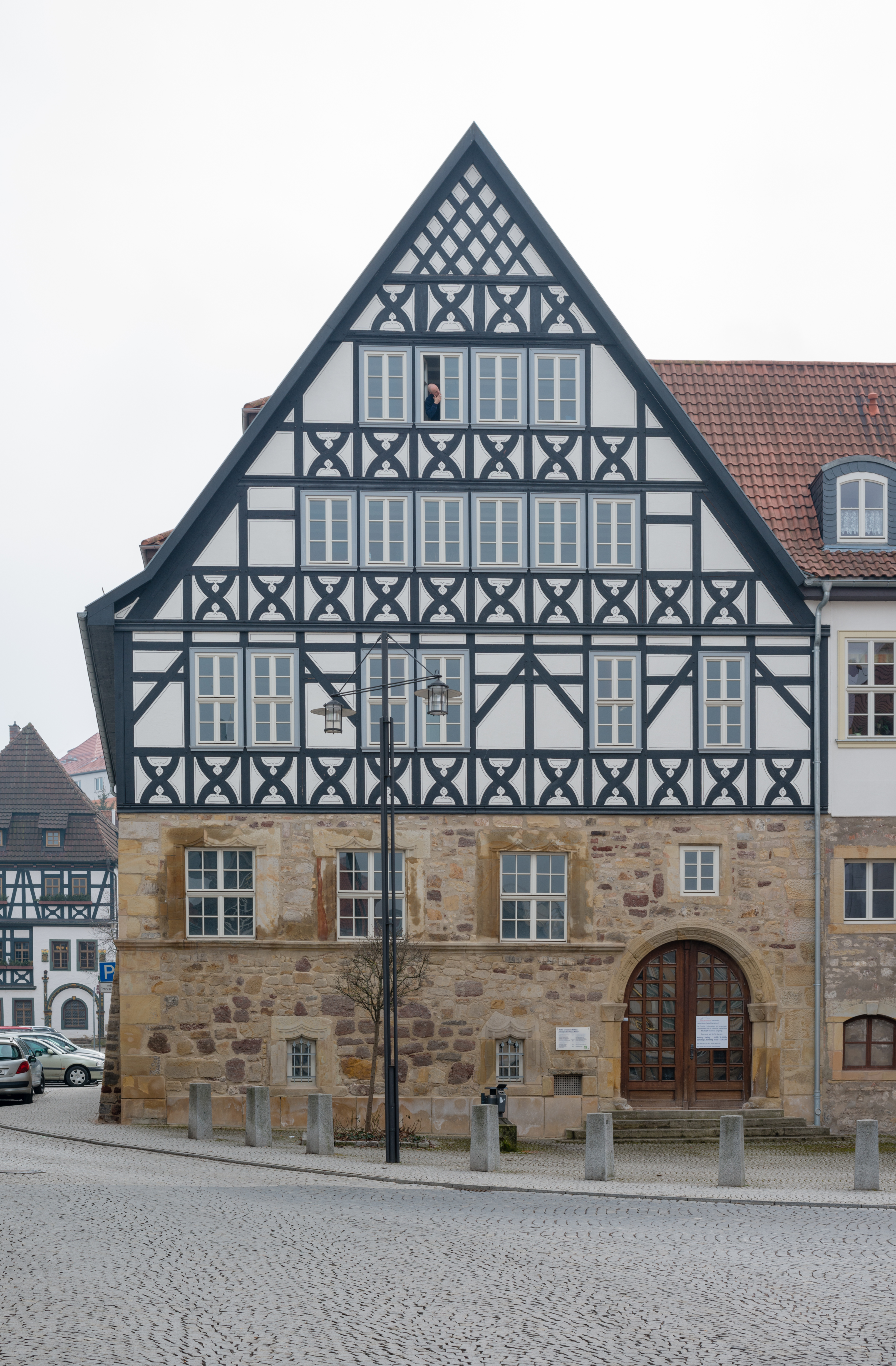 Tudor style house near market place, Eisenach, Thuringia, Germany.